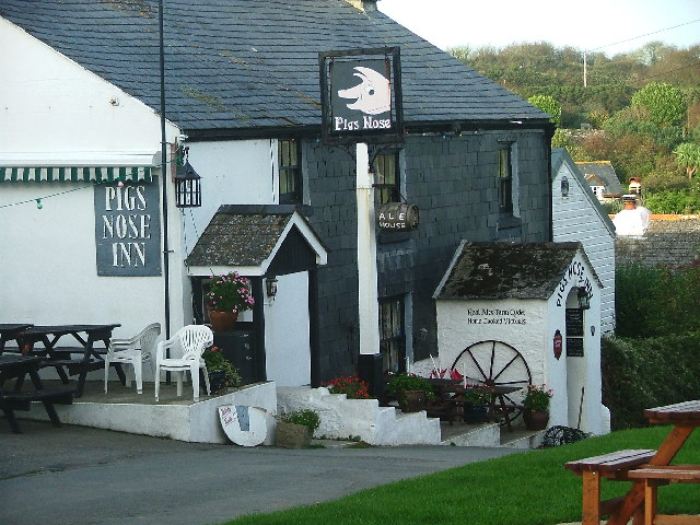 Pig's Nose Inn, East Prawle. The area around Prawle appears to have a fascination with 'pigs', close by is a rocky protrusion also known as the Pig's Nose, close to the Ham Stone and Gammon Head !!